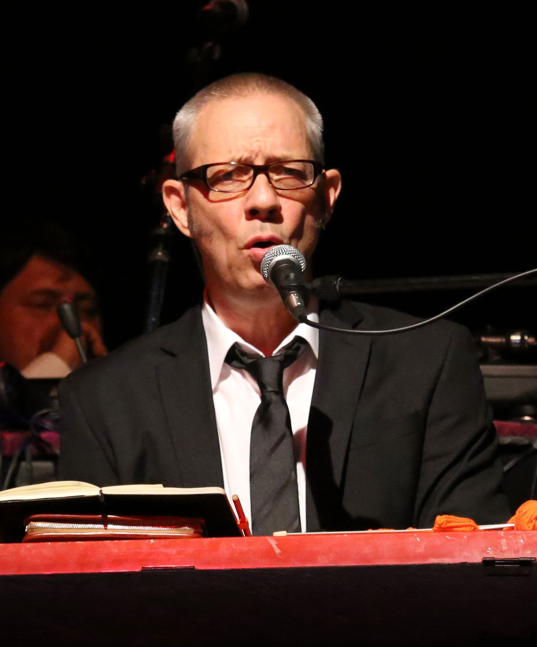 Buddy Casino, keyboard player of the Orchester der Versöhnung, at the ZMF 2014 in Freiburg, Germany